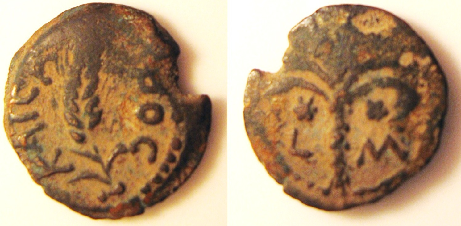 coin of Marcus Ambivulus. Self-dated to the year 40 (L.M) of the reign of Augustus. From Itamar Atzmon's collection.